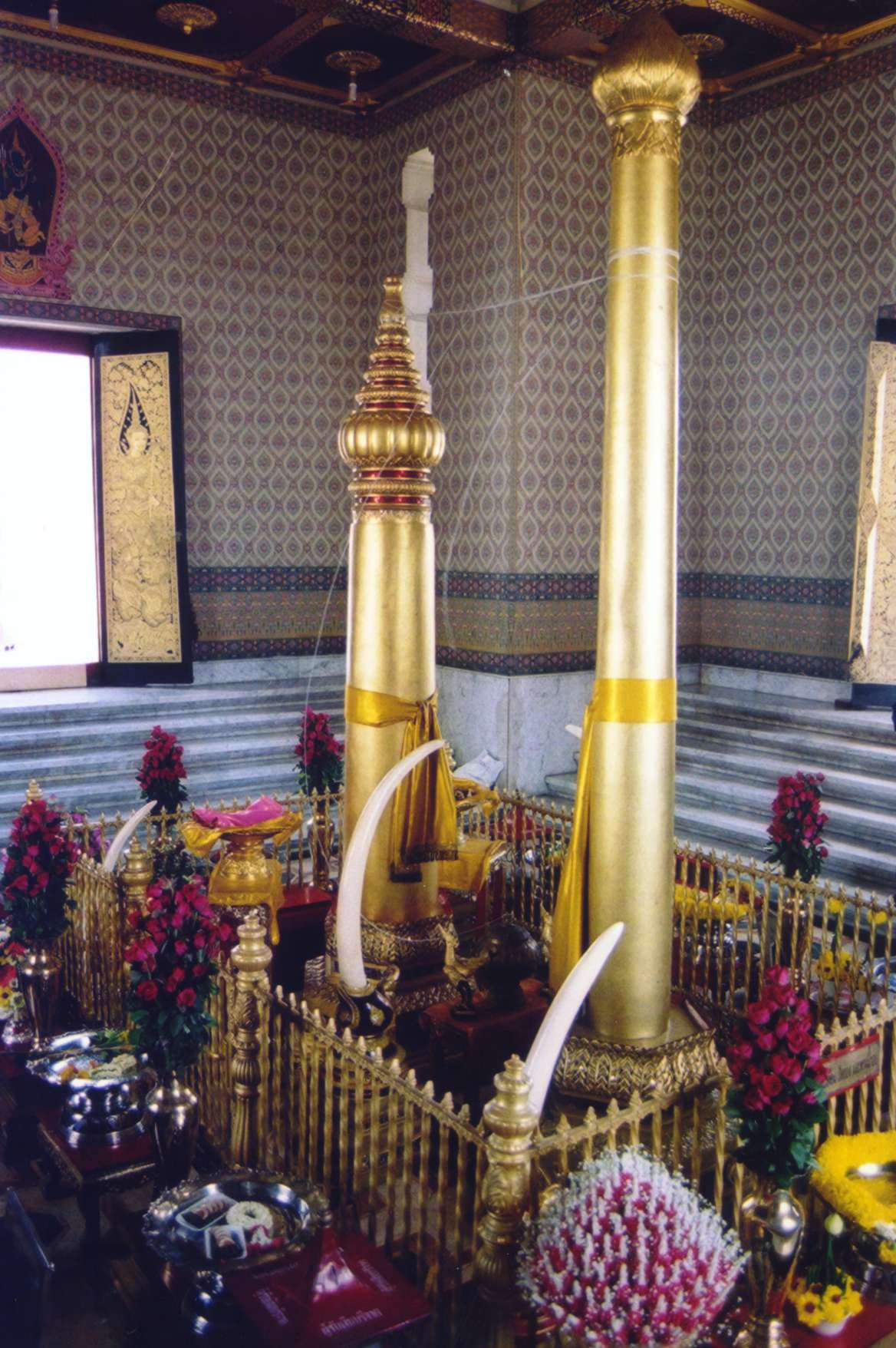 City pillar shrine (หลักเมือง, Lak Mueang) of Bangkok, Thailand. The inside is highly decorated with flowers and other gifts donated to the shrine.